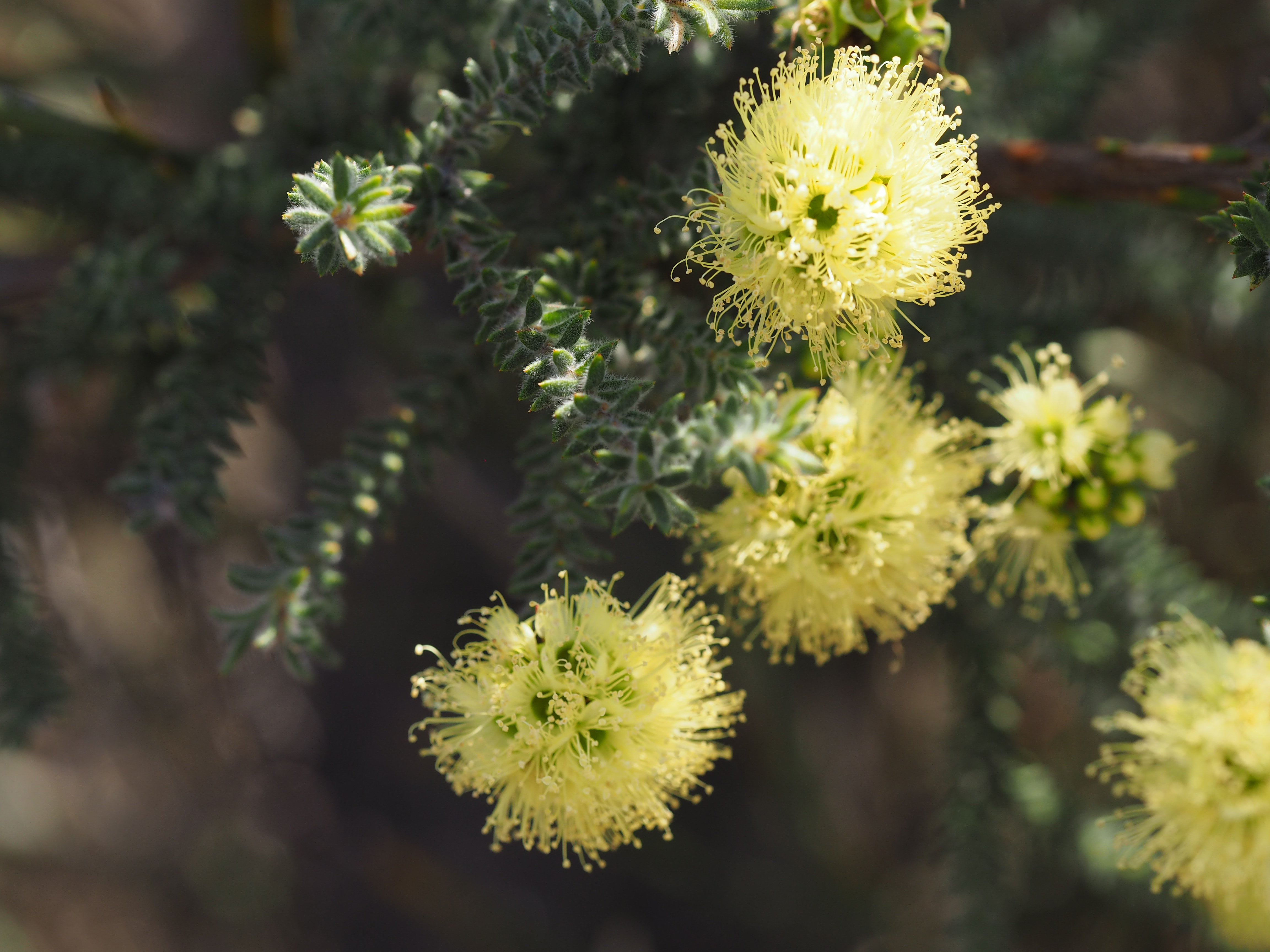 Kunzea ericifolia growing in Mount Lindesay National Park